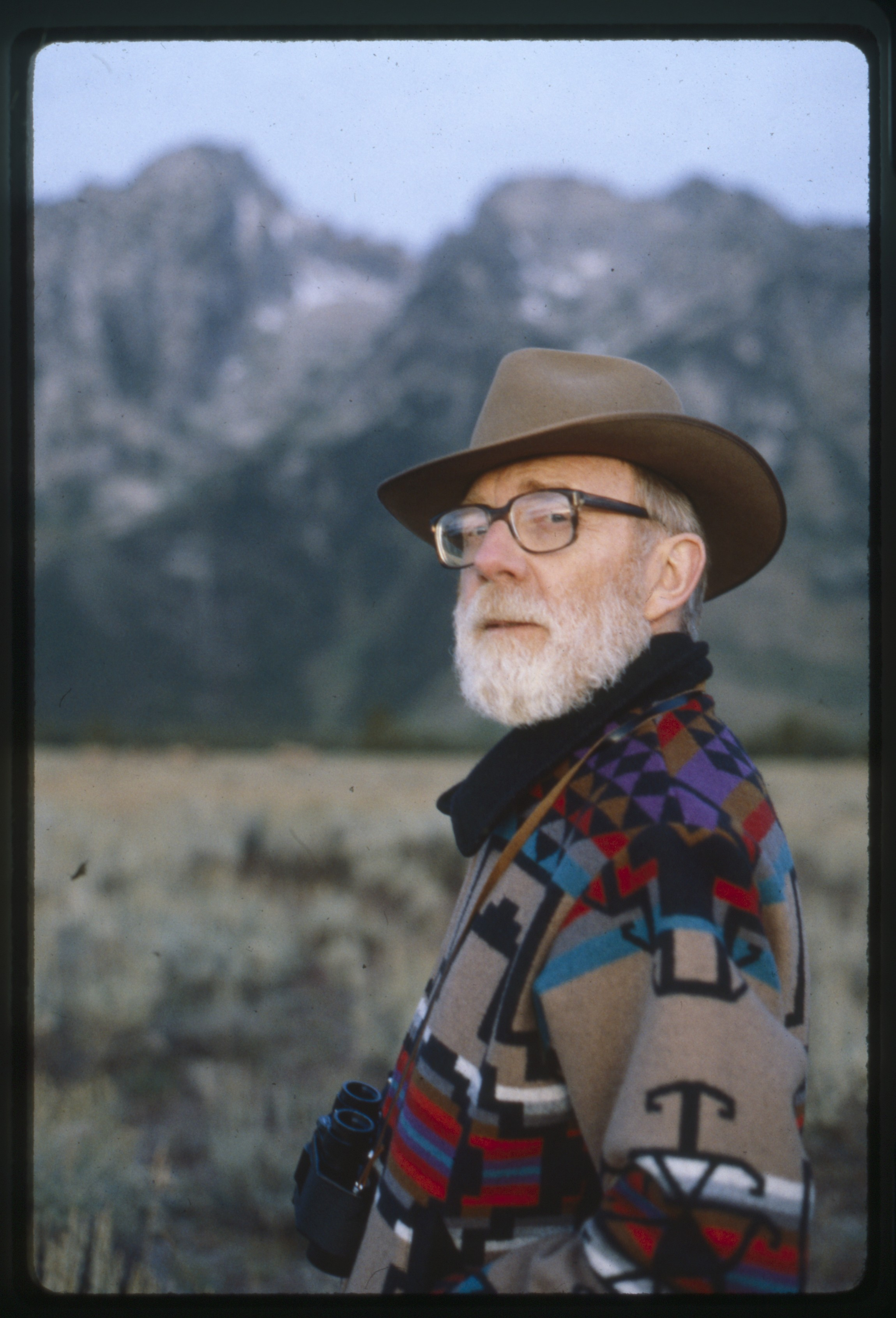 Portrait of American author and novelist Ivan Doig wearing a cowboy hat and woolen jacket in the Teton Range of Wyoming. Digital image obtained from the Ivan Doig Archive at Montana State University (MSU) Library.